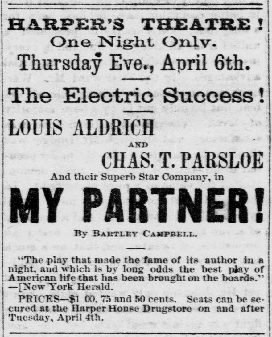 Haper's Theater, April 6th [1882]: Louis Aldrich and Chas. T. Parsloe, and their superb star company, in My Partner! by Bartley Campell.